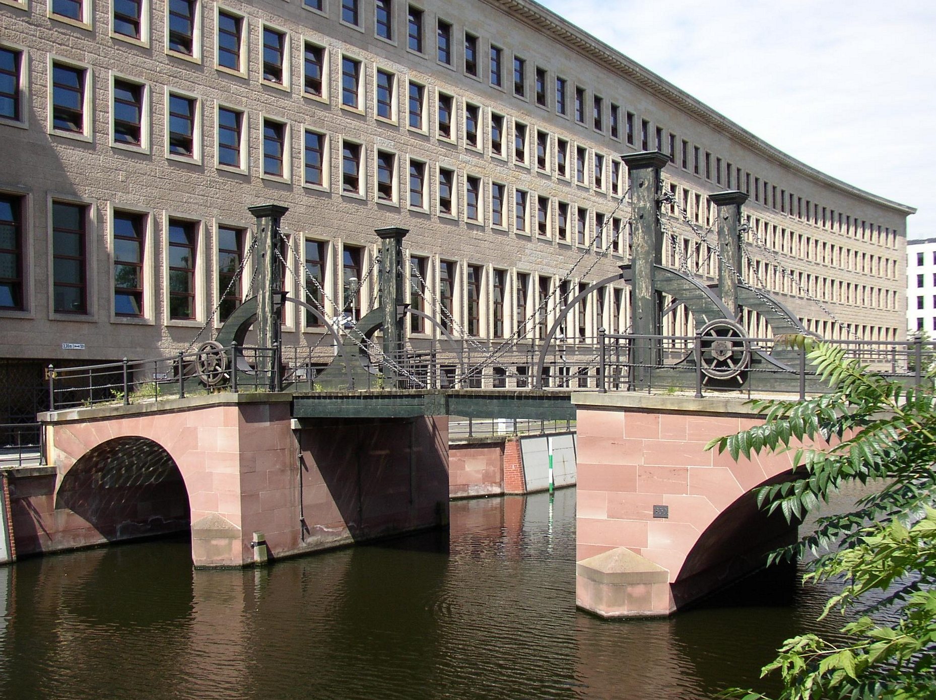 Maiden bridge in Berlin-Mitte, Germany